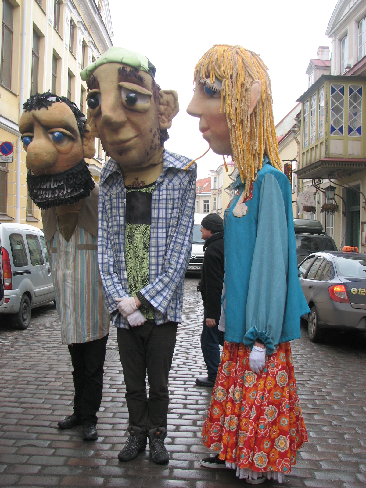 Personages of childrens' books